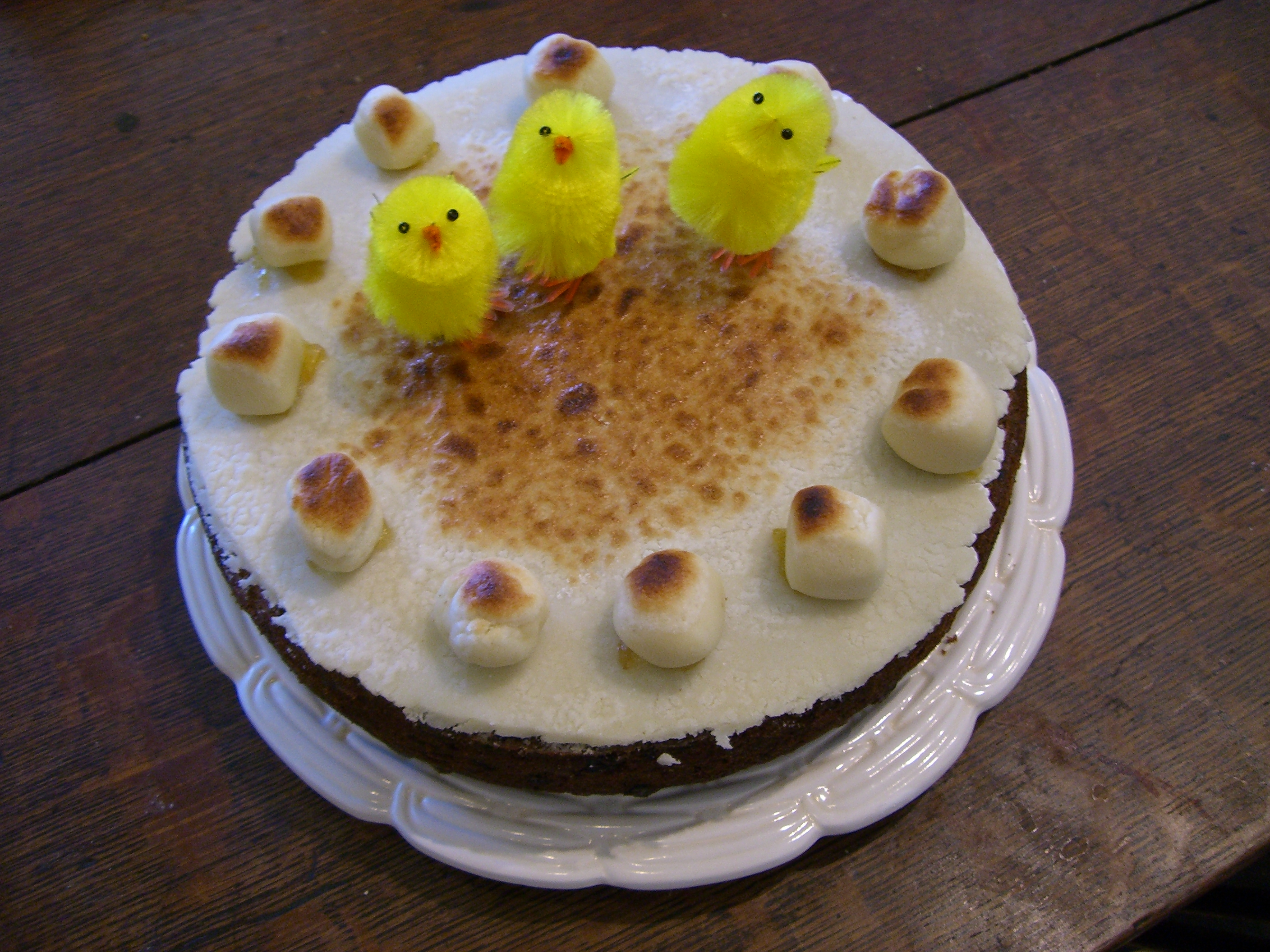 Simnel cake Photo taken by User:Edward on 14th April 2006 using a Casio EX-S600.